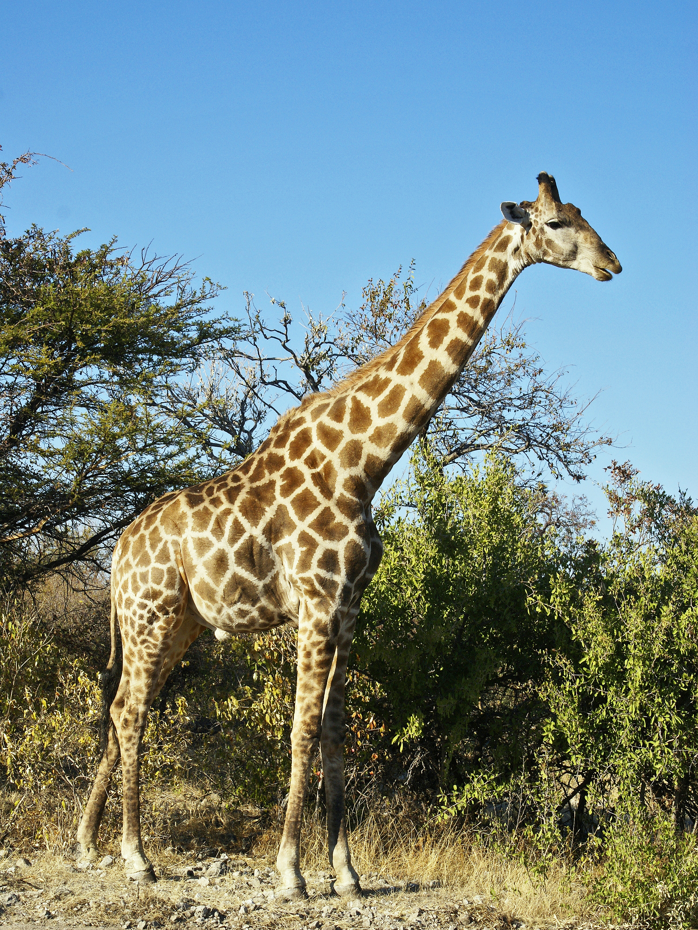 A bull Southern savannah giraffe close to Namutoni, Etosha, Namibia